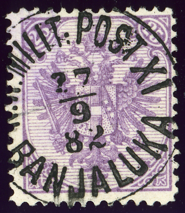 Bosnia 25 kr litho stamp, first issue, cancelled K.U.K.MILIT.POST XI BANJALUKA in 1882.